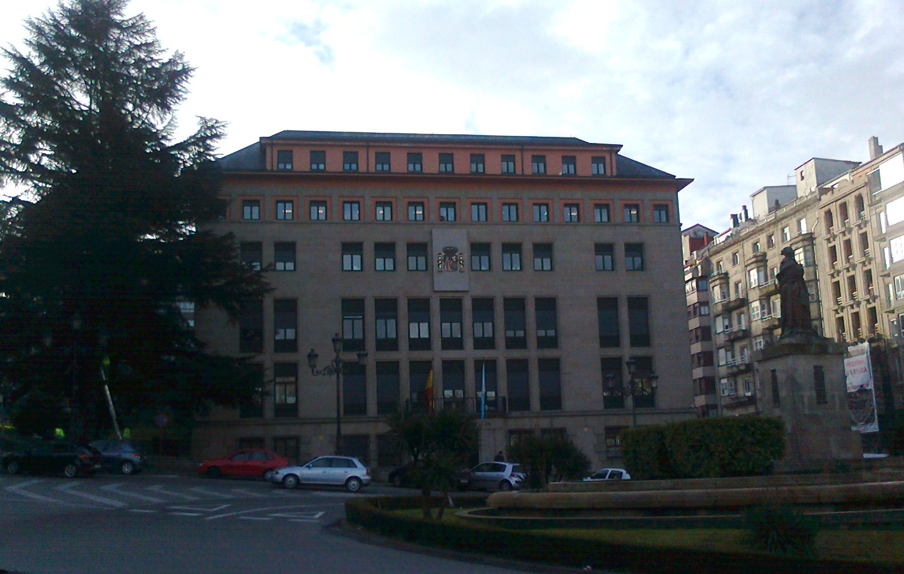 Justice palace (Ourense, Galicia, Spain)